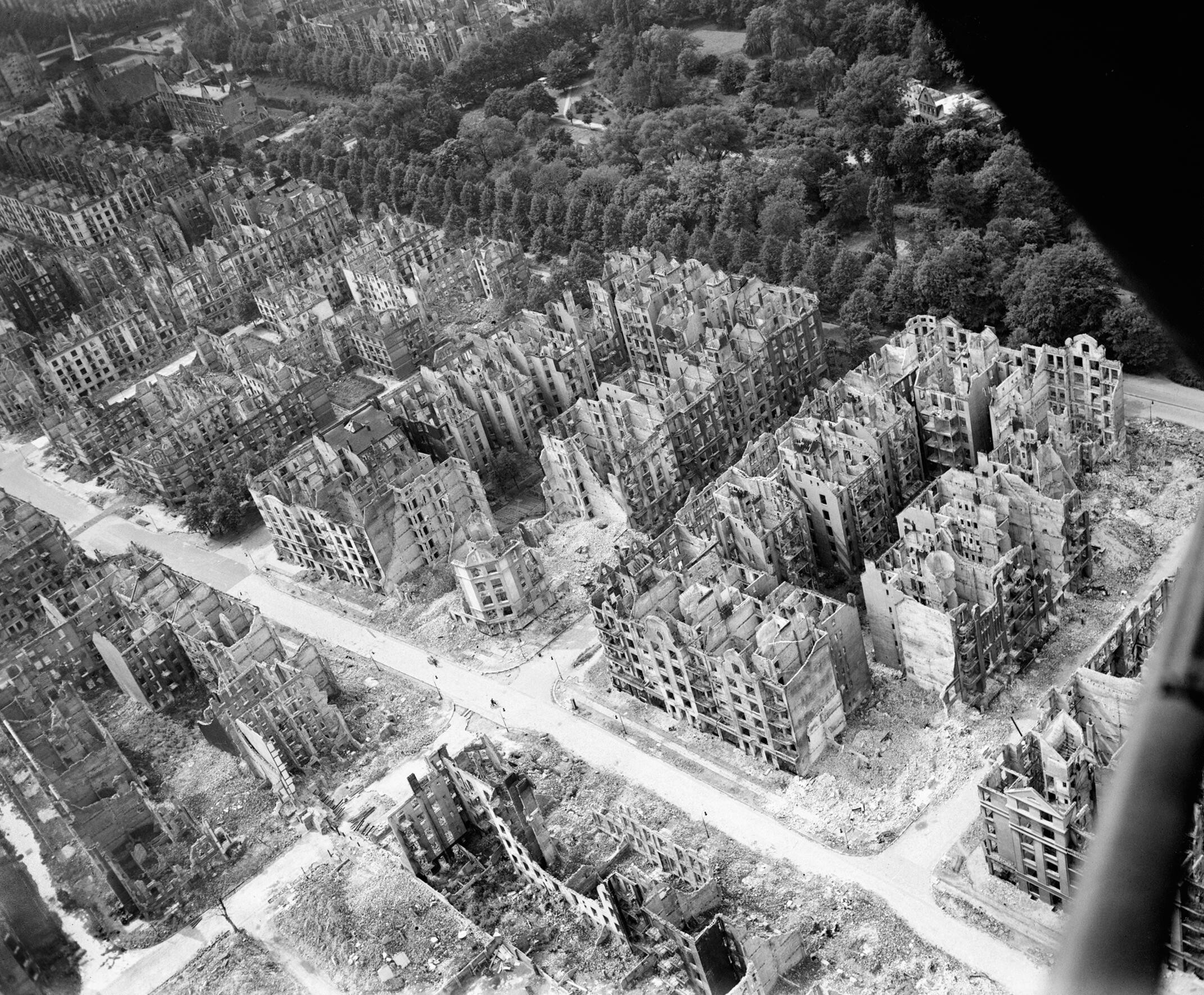 Royal Air Force Bomber Command, 1942-1945. Oblique aerial view of ruined residential and commercial buildings south of the Eilbektal Park (seen at upper right) in the Eilbek district of Hamburg, Germany. These were among the 16,000 multi-storeyed apartment buildings destroyed by the firestorm which developed during the raid by Bomber Command on the night of 27/28 July 1943 (Operation GOMORRAH). The road running diagonally from upper left to lower right is Eilbeker Weg, crossed by Rückertstraße.